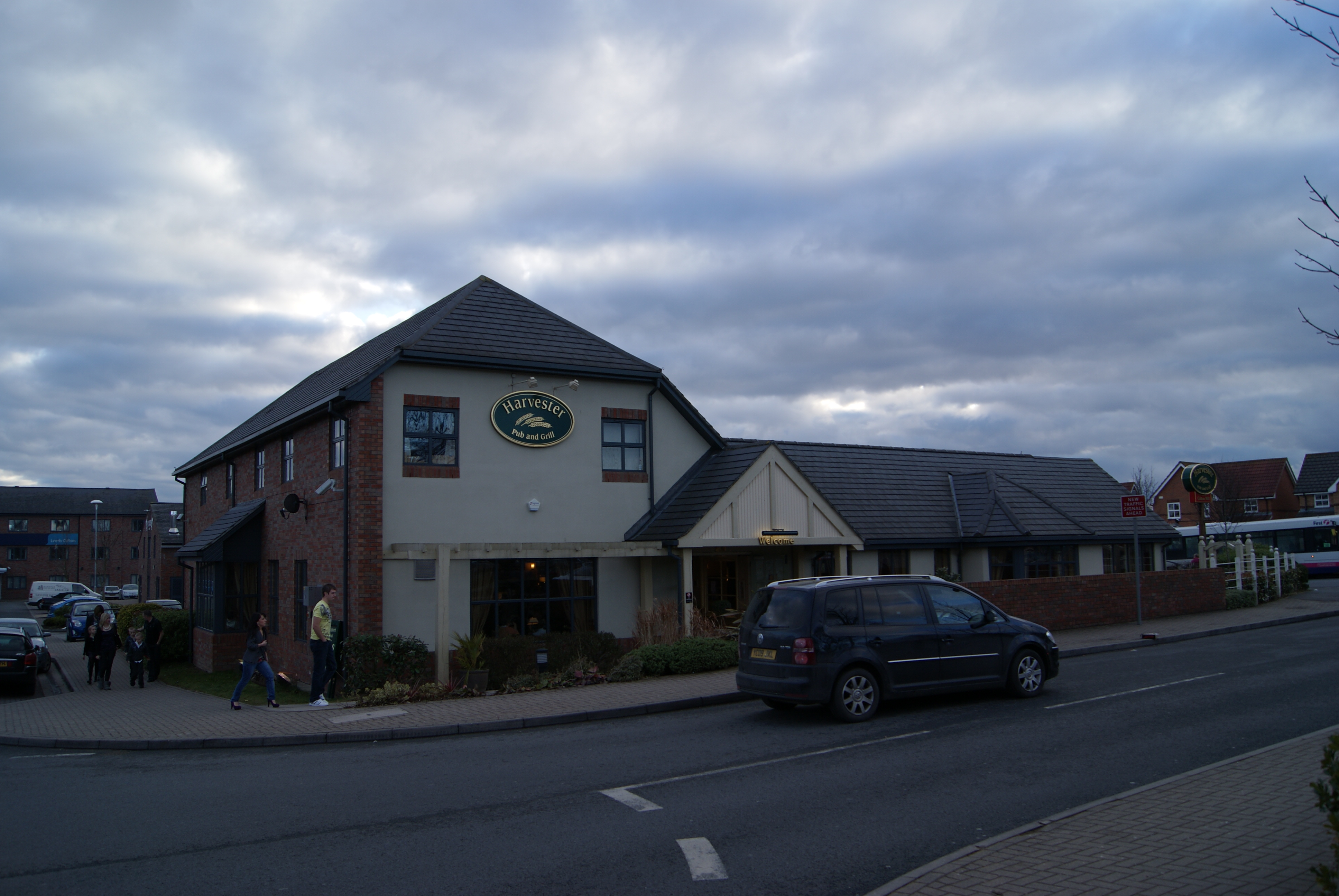 The Colton Mill, a Harvester pub adjacent to the Leeds Colton Travelodge. The pub is situated in the Colton Mill development in the Colton area of Leeds. Taken on the afternoon of Sunday the 14th of February 2010.